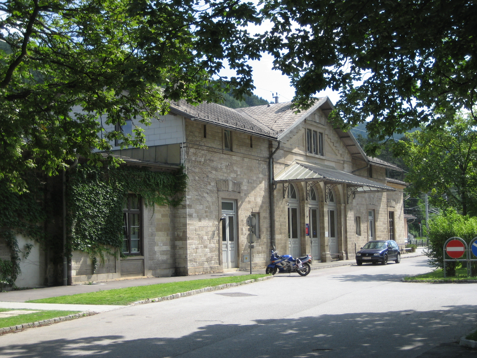 Payerbach-Reichenau railway station, Semmering railway in Lower Austria